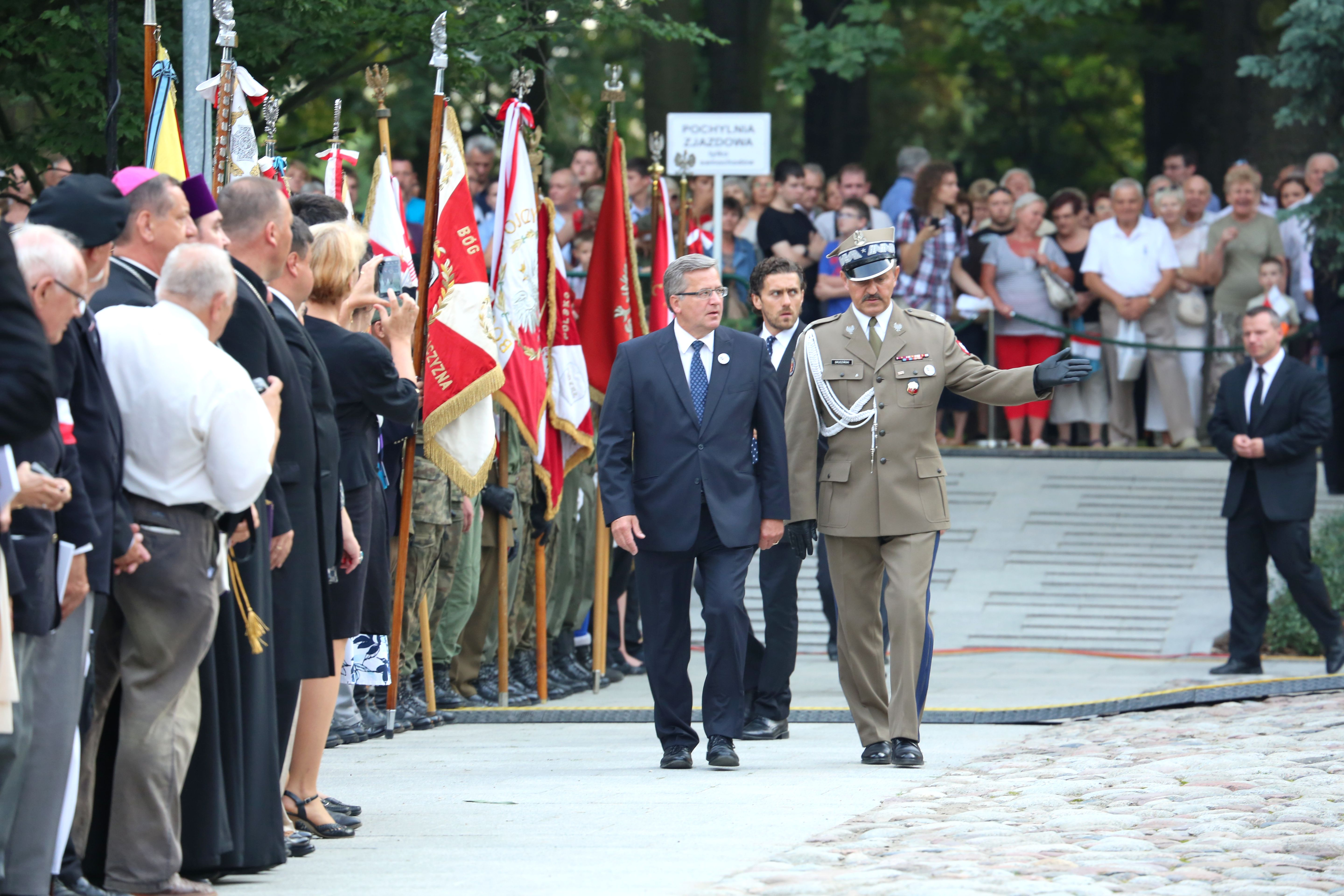 70th anniversary of the Warsaw Uprising celebrations at Polegli Niepokonani Monument in Warsaw